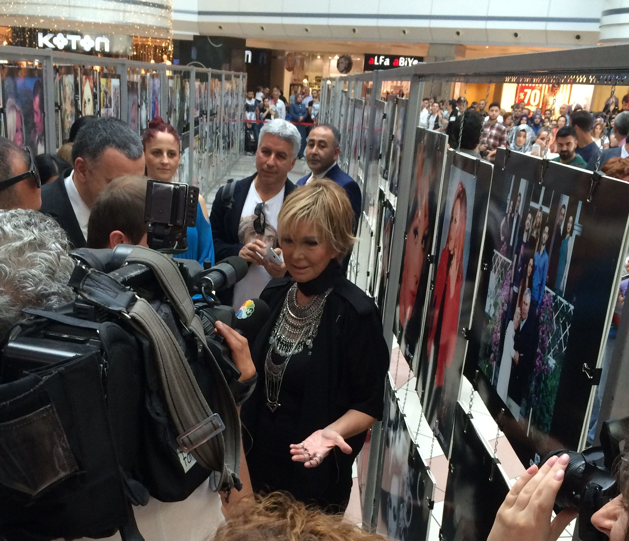 Filiz Akın